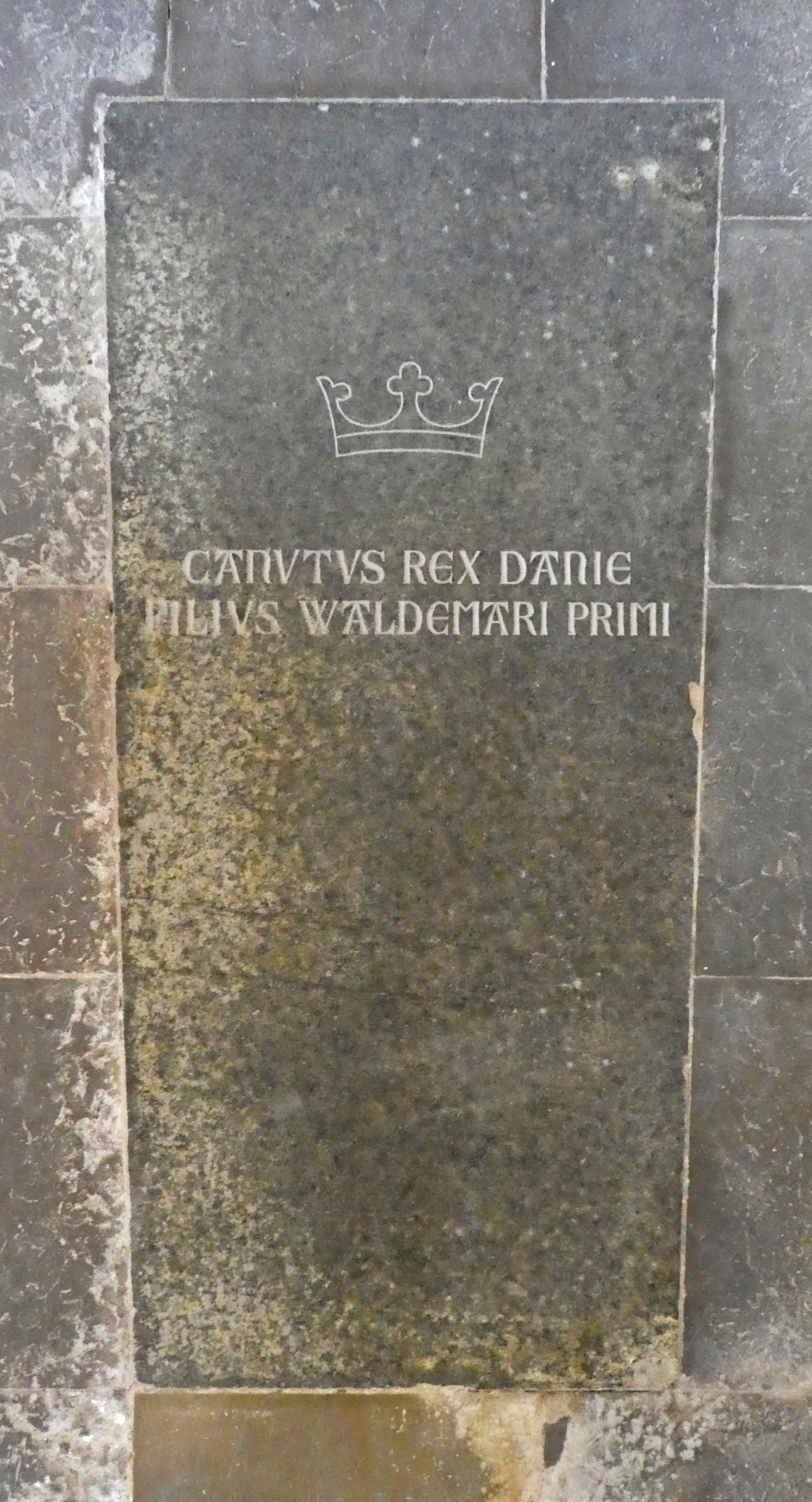 Tomb of King Canute VI of Denmark in the Saint Bendt's Church (Skt. Bendts Kirke) in Ringsted, Denmark